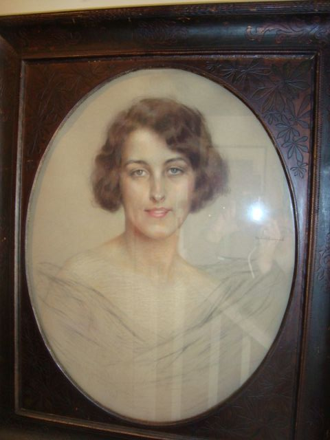 Cornélie Caroline van Asch van Wijck by Gustave Brigand